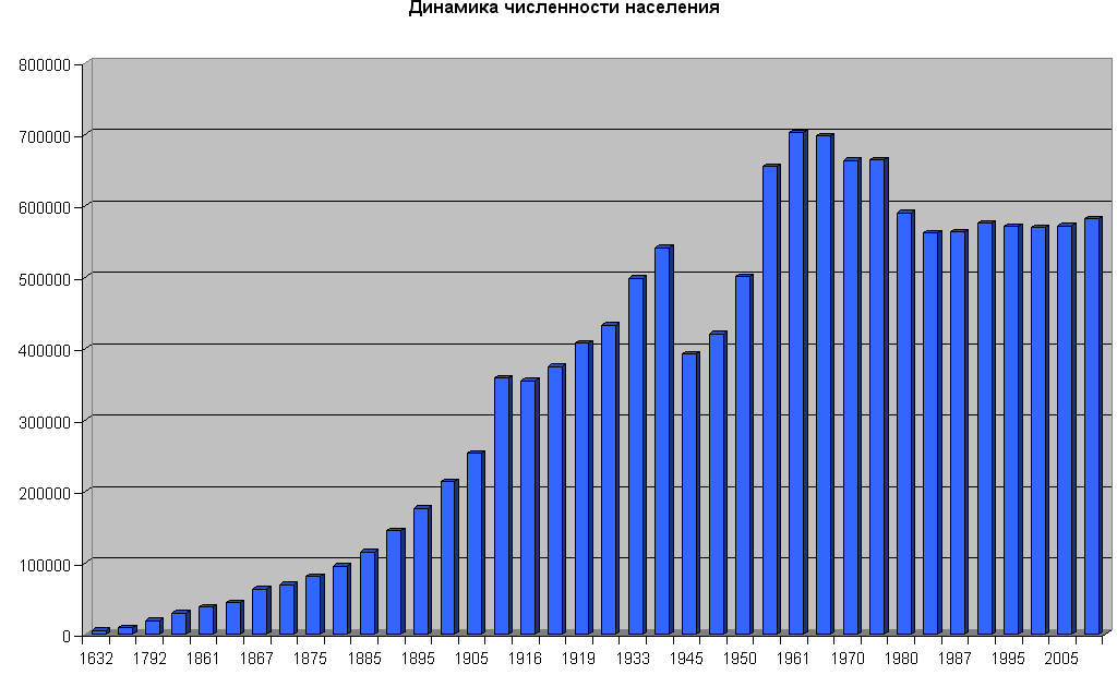 Diagram, show dynamic of the population in Dusseldorf. Russian language.